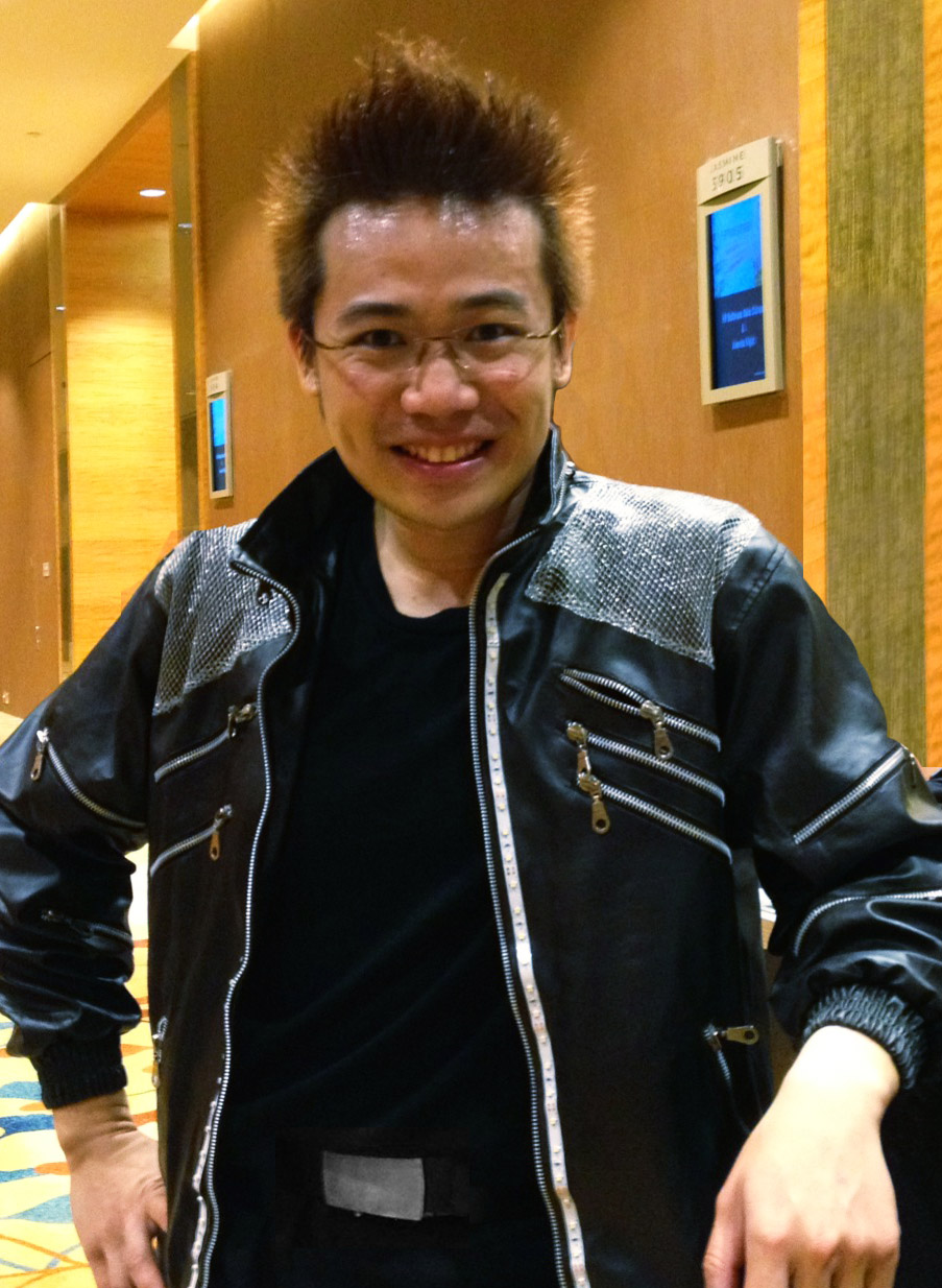 Photo of Singapore Magician Kiki Tay